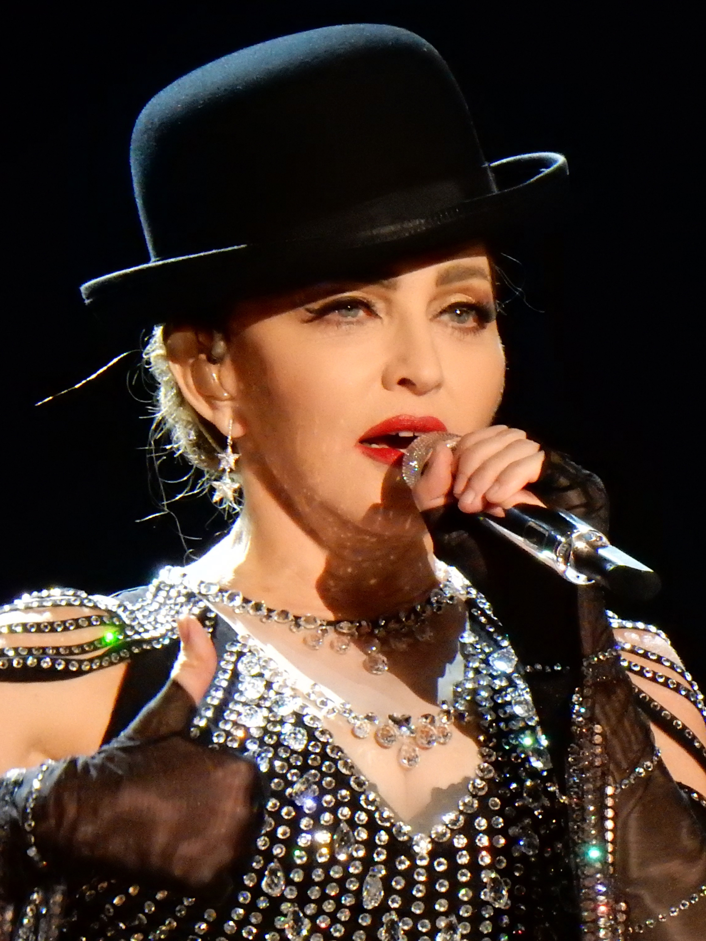 Rebel Heart Tour 2016 - Sydney 1